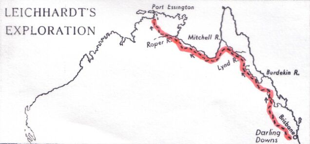 Map of the explorer's route in Australia. This image is of Australian origin and is now in the public domain because its term of copyright has expired. According to the Australian Copyright Council (ACC), ACC Information Sheet G023v17 (Duration of copyright) (August 2014). Type of materialCopyright has expired if ... A Photographs or other works published anonymously, under a pseudonym or the creator is unknown:taken or published prior to 1 January 1955 B Photographs (except A):taken prior to 1 January 1955 C Artistic works (except A & B):the creator died before 1 January 1955 D Published editions1 (except A & B):first published more than 25 years ago E Commonwealth or State government owned2 photographs and engravings:taken or published more than 50 years ago and prior to 1 May 1969 1 means the typographical arrangement and layout of a published work. eg. newsprint. 2owned means where a government is the copyright owner as well as would have owned copyright but reached some other agreement with the creator. When using this template, please provide information of where the image was first published and who created it.